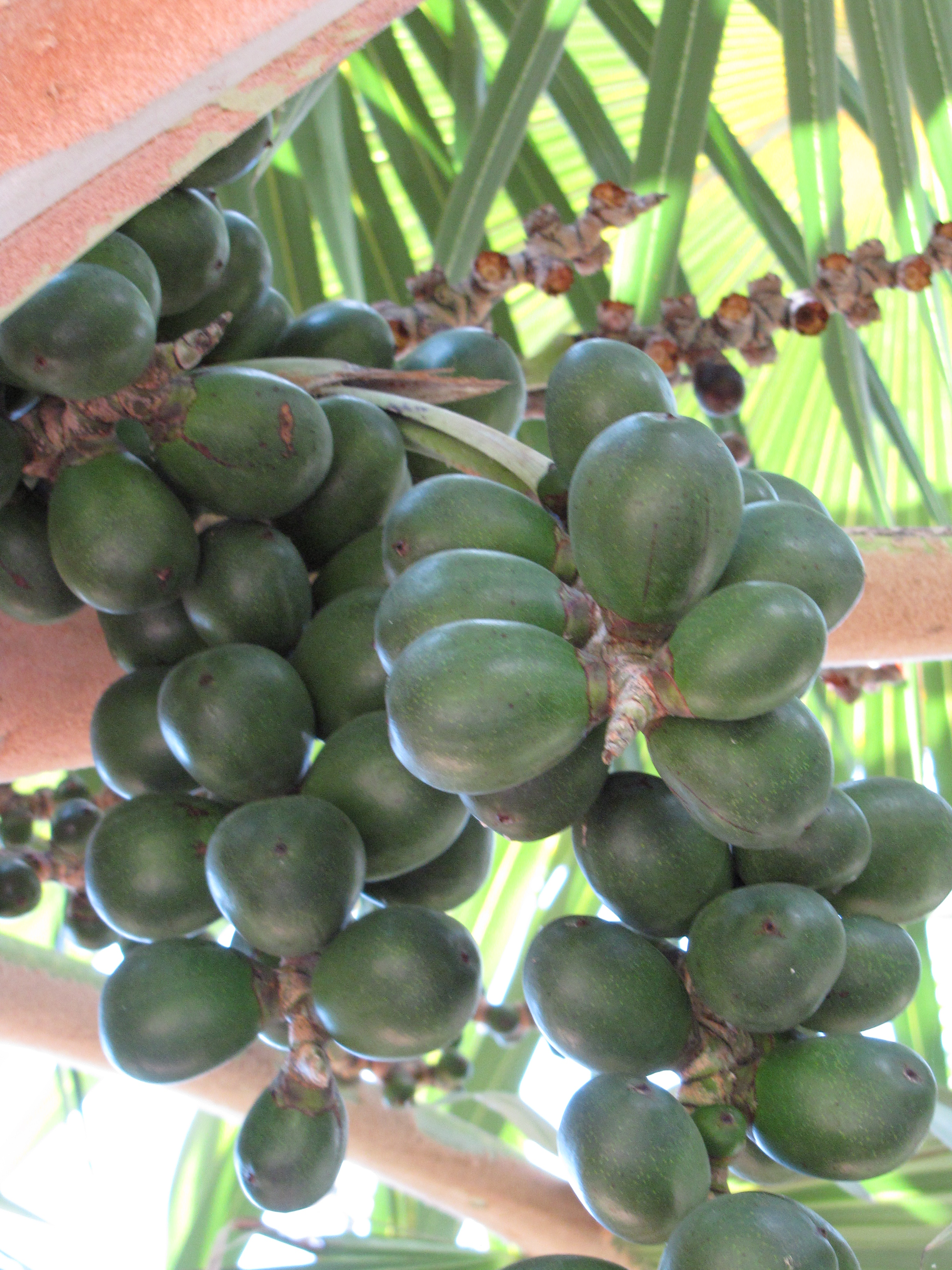 Fruits of Latania loddigesii